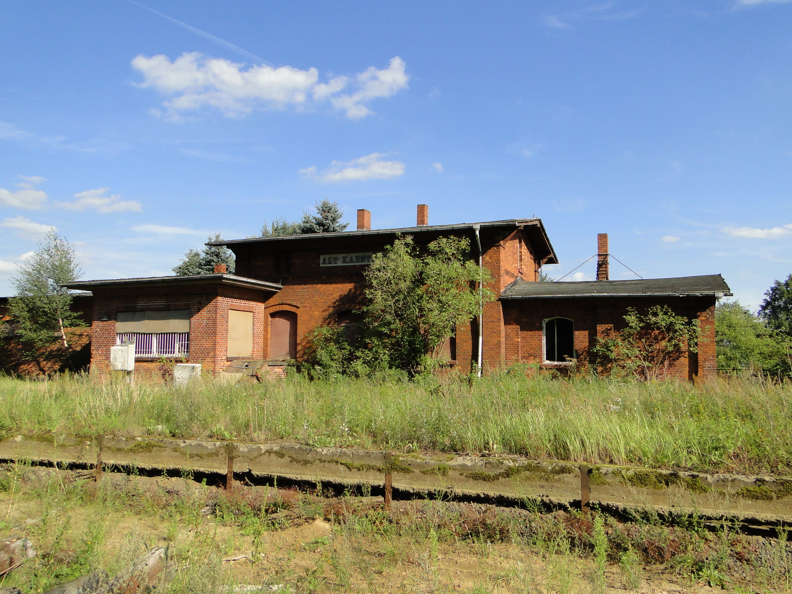 Former train station Alt Karstädt in Karstädt, district Ludwigslust, Mecklenburg-Vorpommern, Germany